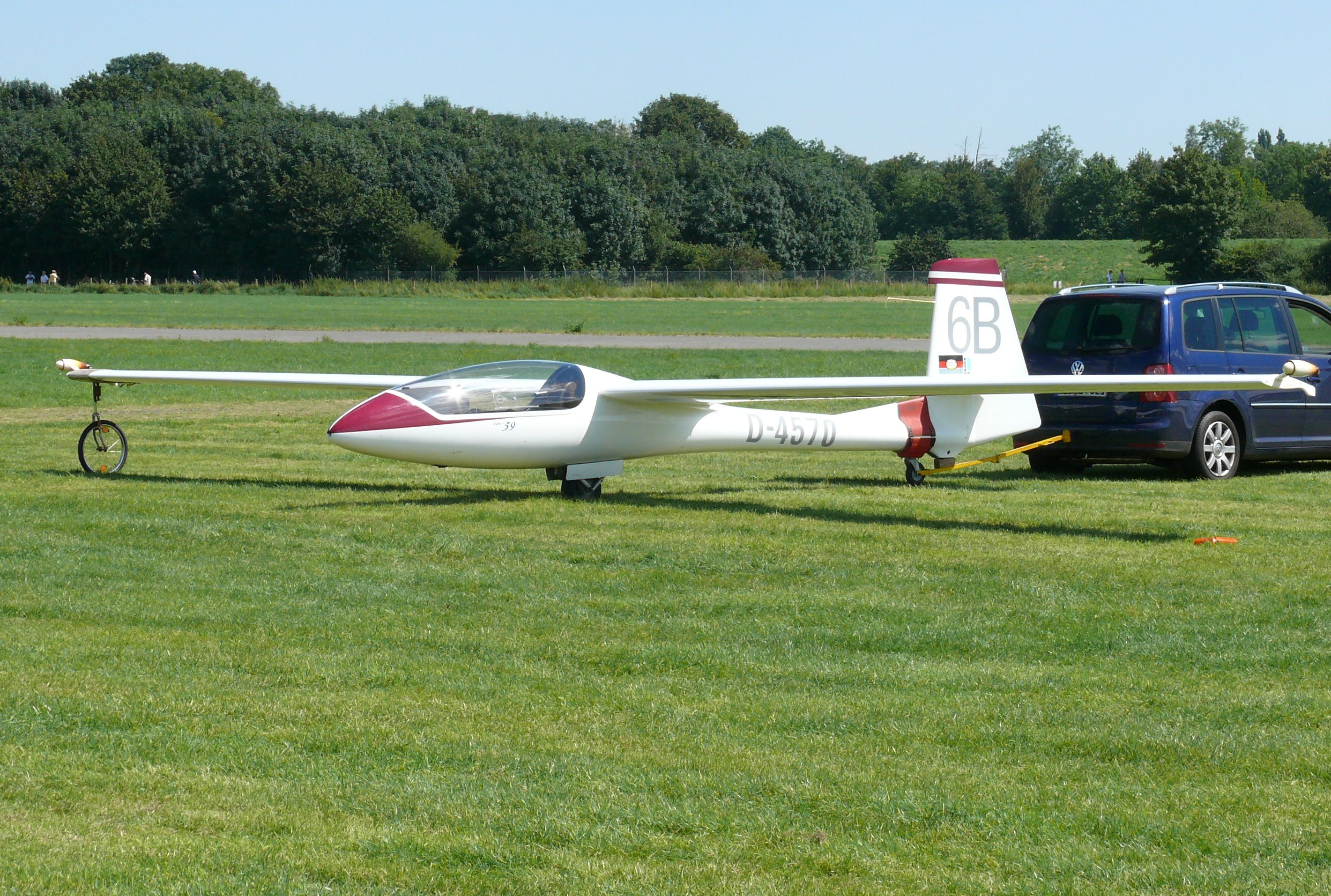 PZL Bielsko SZD 59 Acro (prototype in 13.2m configuration) towed behind a car